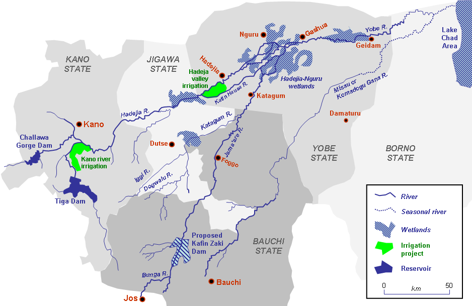 Sketch map of the catchment area of the Yobe river in north-east Nigeria